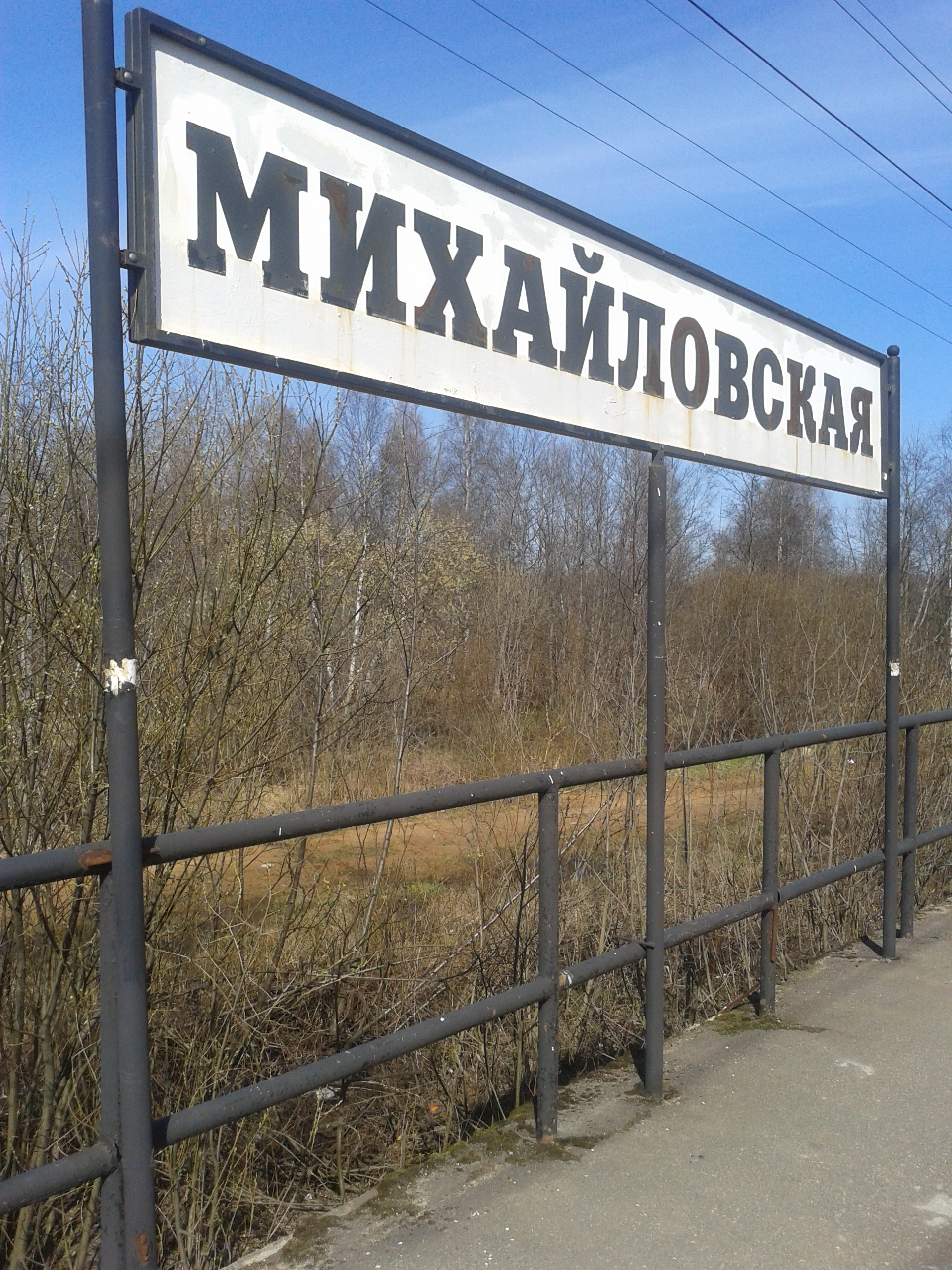 Railway platform Mikhaylovskaya, Kirovsk district of Leningrad region, Russia. A sign with the station name